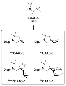 Cyclic (alkyl)(amino)carbenes with a six-membered backbone